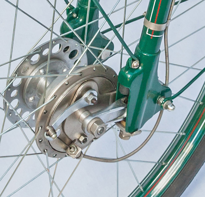 Bowden cable on the brakes of the motobike